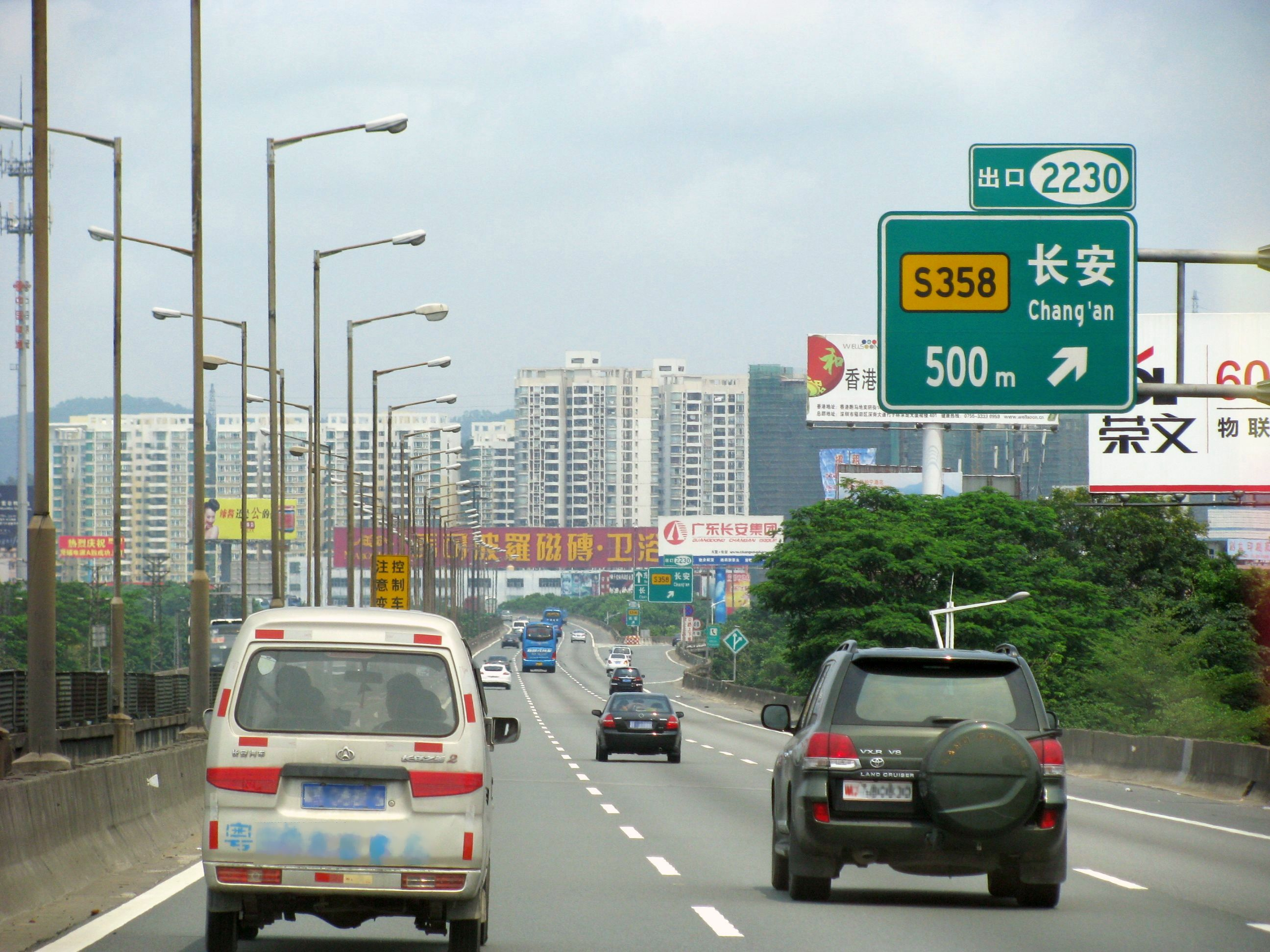 The G4 Beijing–Hong Kong–Macau Expressway in China.